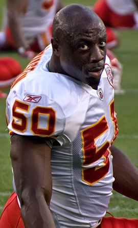 Kansas City Chiefs vs. Green Bay Packers at Lambeau Field on September 1, 2011. Photo by Mike Morbeck.